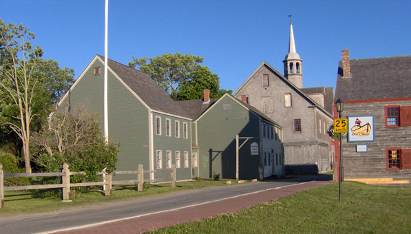 The Shelburne County Museum, located on historic Dock St., in Shelburne, Nova Scotia, Canada. It is a restored home, built in 1787, which was once owned by Cooper, Dave Nairn of Scotland.